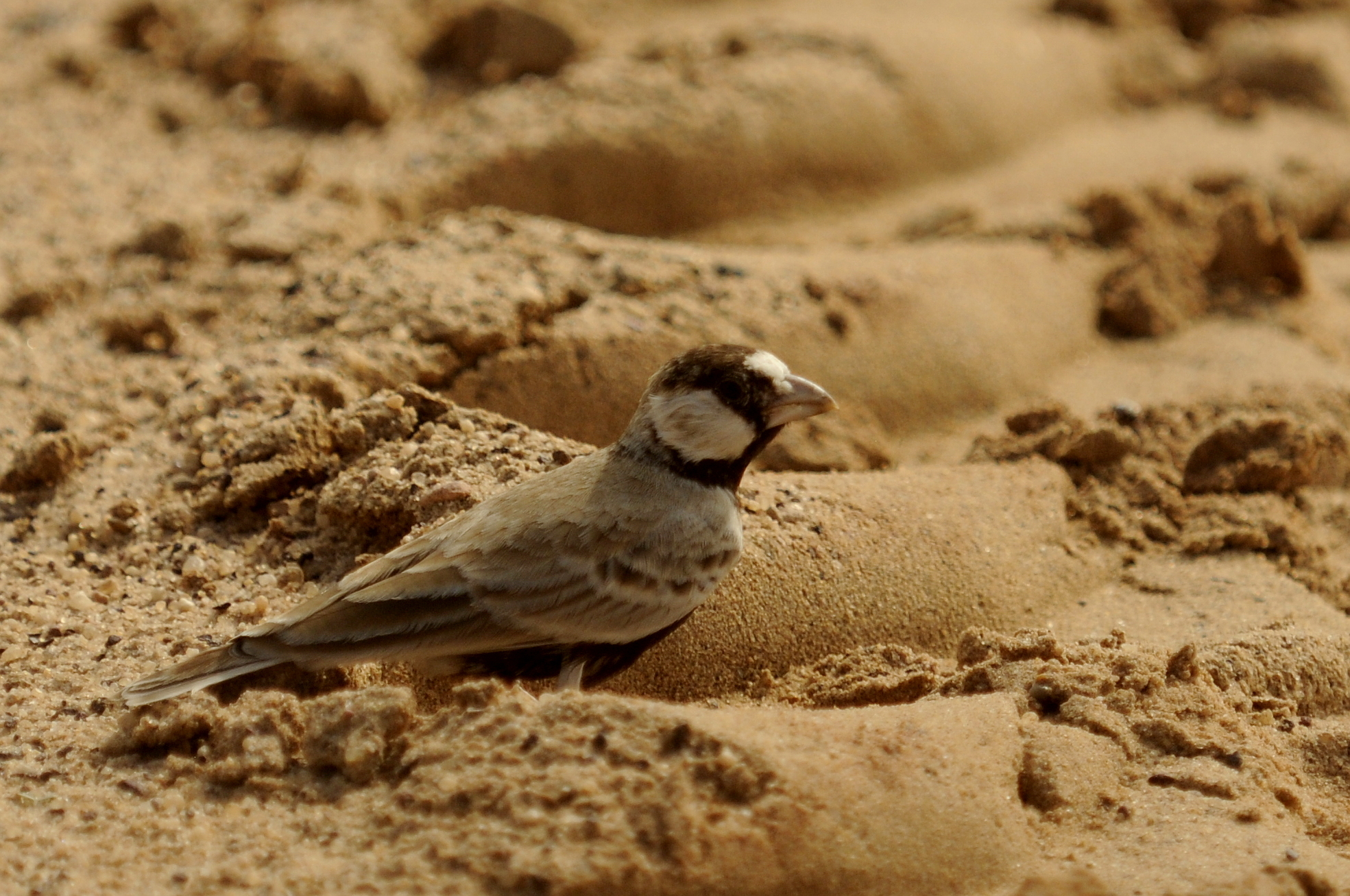 Black-crowned Sparrow-Lark male in Desert National Park, Rajasthan, India.